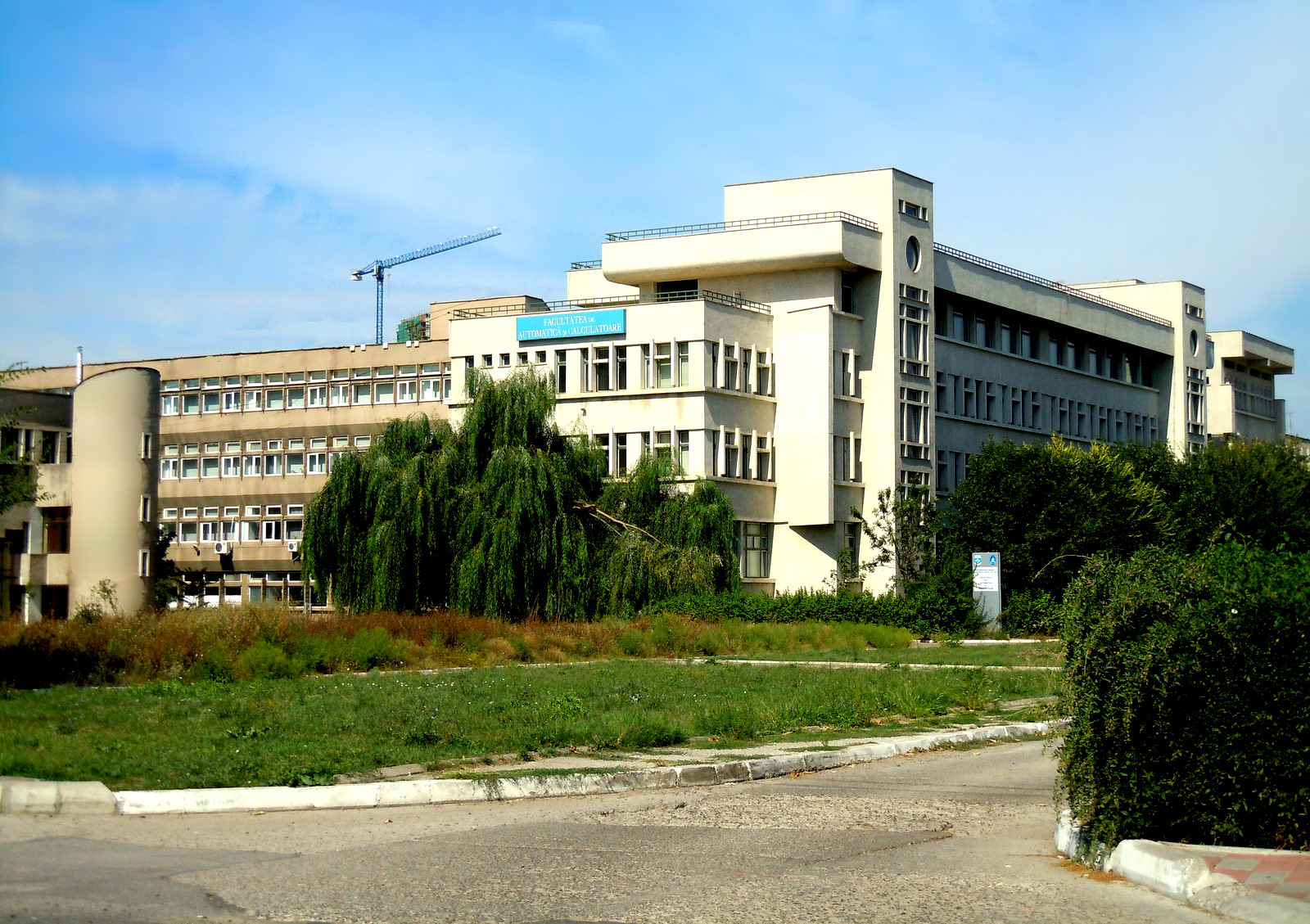 Iaşi , Faculty of Automatic and Computers of the Technical University „Gheorghe Asachi“ , Iaşi , Romania